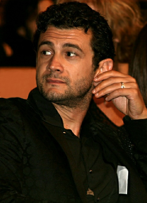 Italian actor Vinicio Marchioni with Alessandra Mastronardi